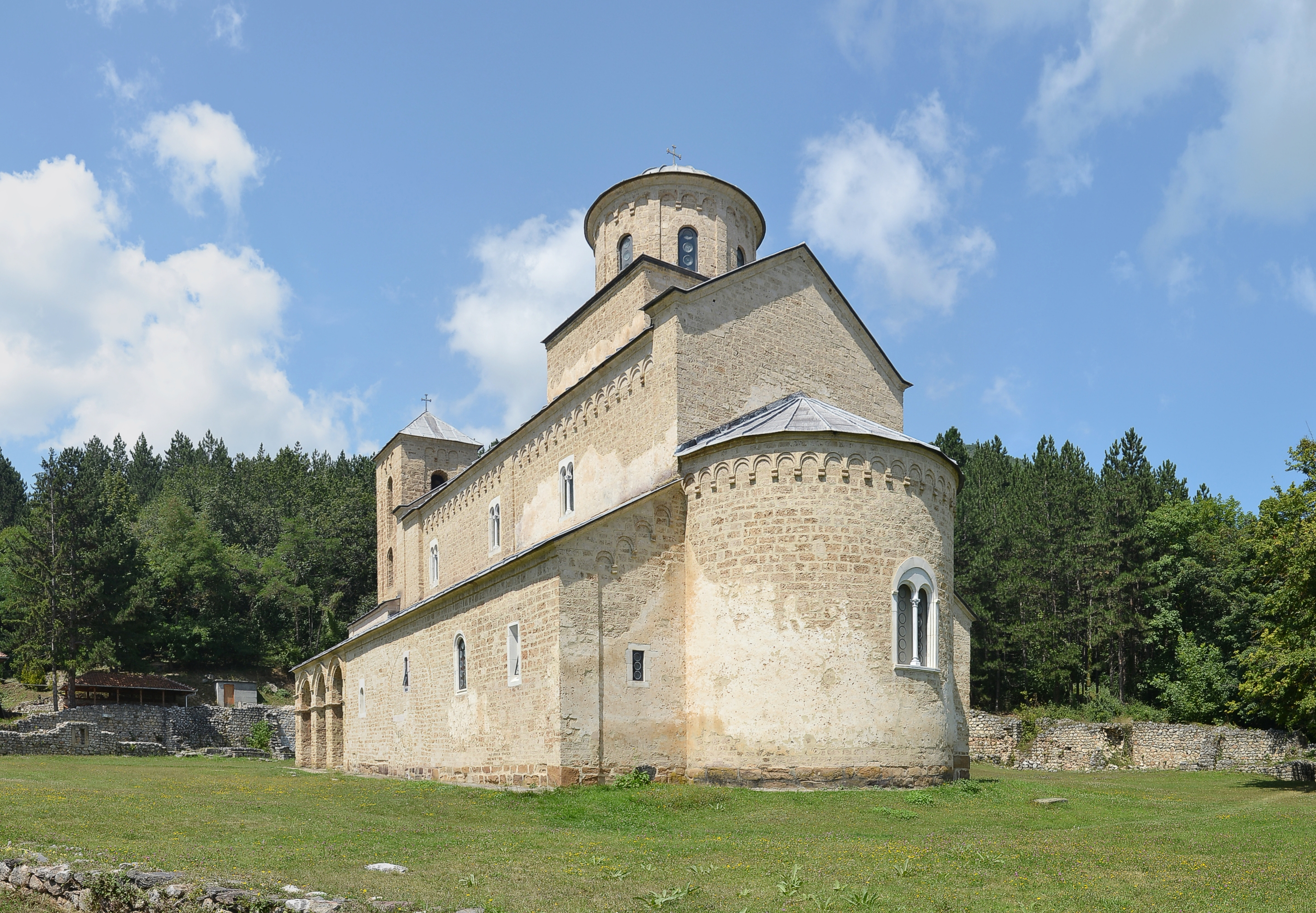 Sopoćani Monastery, Serbia